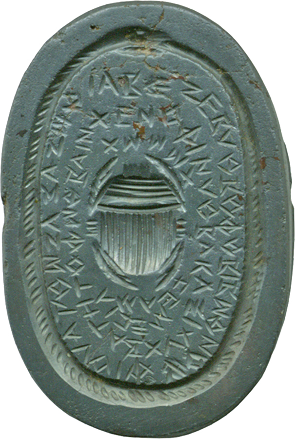 This gem displays an "uroborus," (a serpent which swallows its own tail to create a closed circle) encircling a scarab beetle and a long inscription, which is made up of magical words. The reverse displays a Pataikos standing on crocodiles, flanked by the goddesses Isis and Nephthys. Above the god is a head of Hathor with a winged sun-disk. Gems with magical icons and words were believed to be protective.